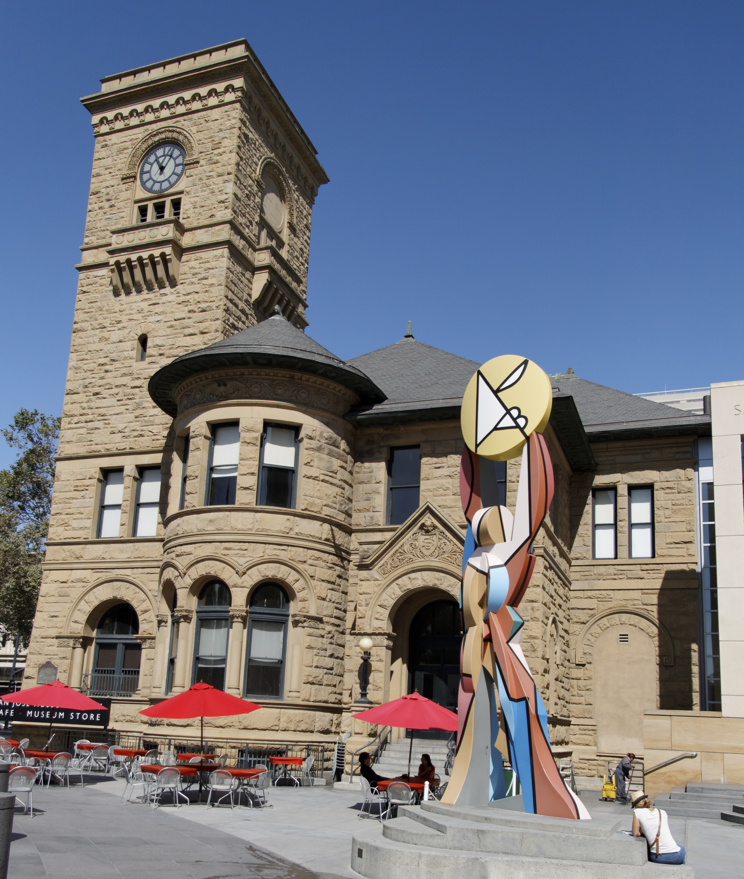 Civic Art Gallery